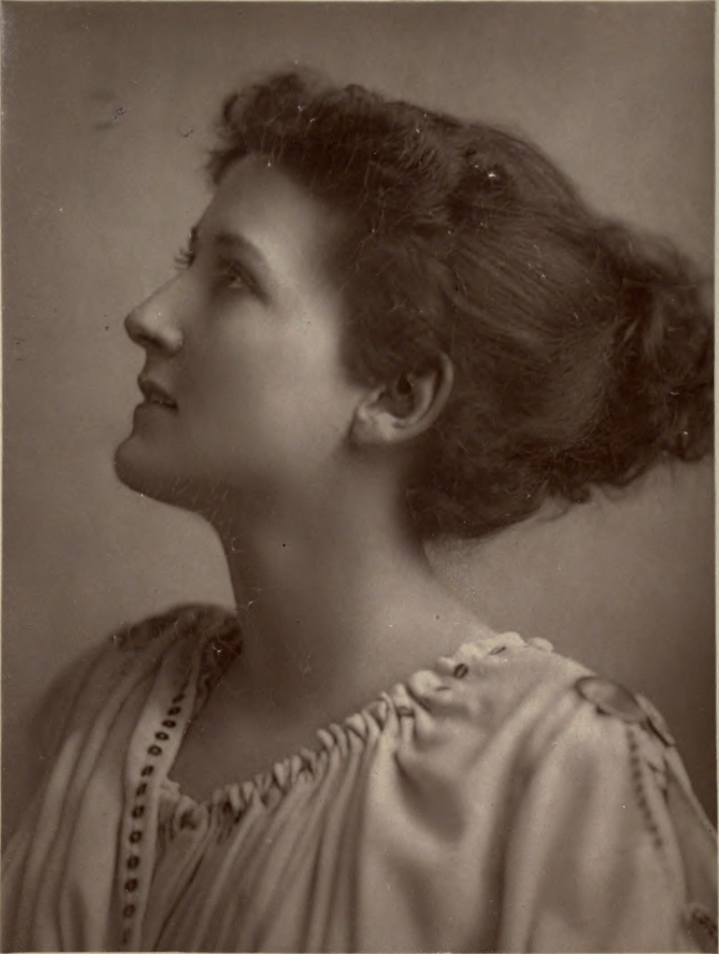 This is the left-profile portrait that appeared facing page 16 in The Theatre: A Monthly Review of the Drama, Music and the Fine Arts, Vol.19, (1 January 1892), linked with the brief article, "Miss Maud Jeffries" at page 49 of that same journal (see [1])